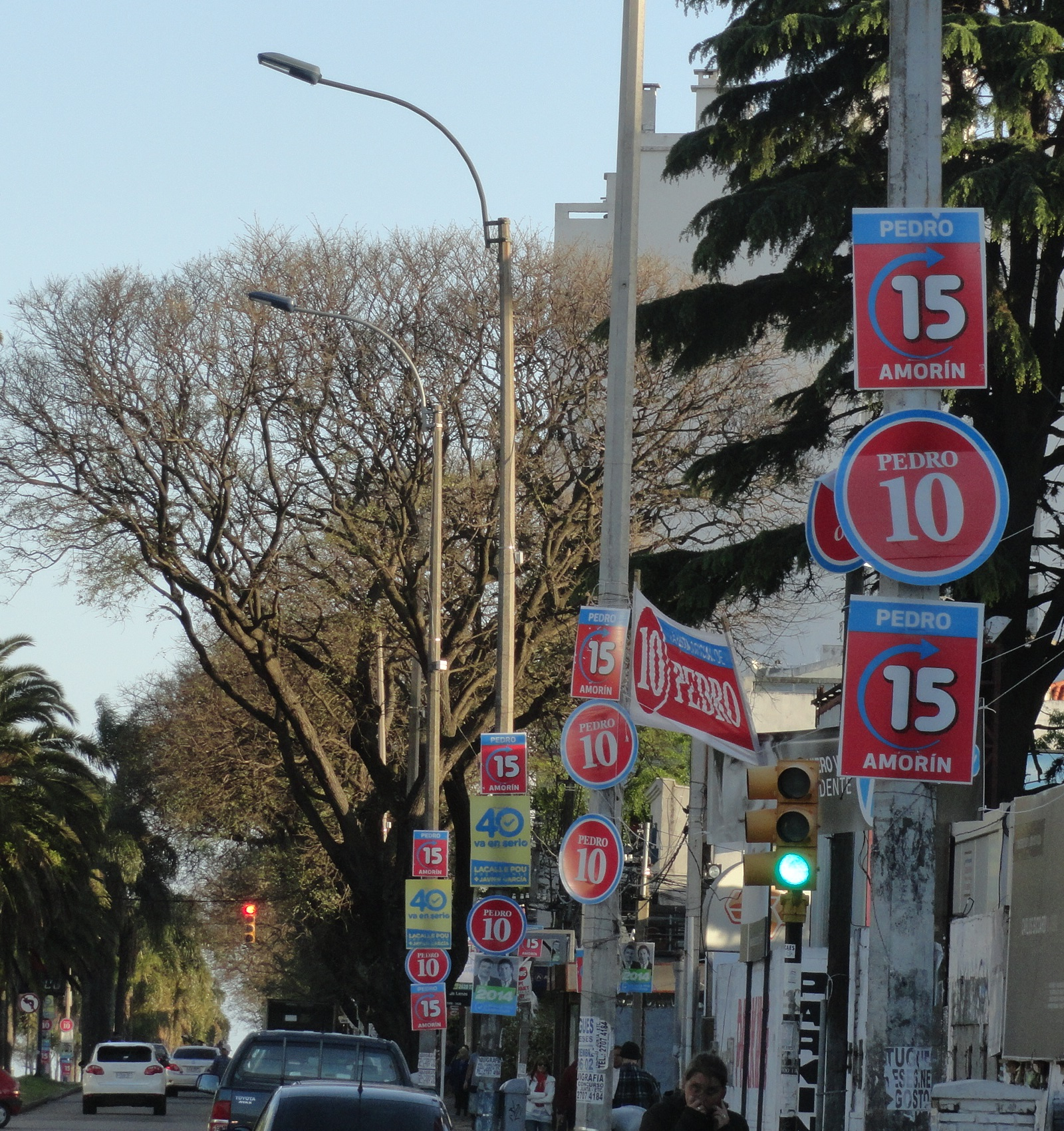 Montevideo street lights covered by Partido Nacional and Partido Colorado advertisements for the 2014 Uruguayan general election.